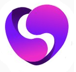 Logo December purple